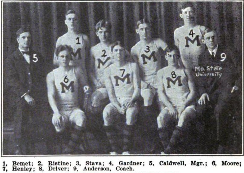 Photograph comes from page 82 of the book. From the Google Books archive: Title The Official National Collegiate Athletic Association basketball guide Authors Amateur Athletic Union of the United States, Young Men's Christian Association, National Basketball Committee of the United States and Canada, National Collegiate Athletic Association Publisher National Collegiate Athletic Association, 1906 Original from the New York Public Library Digitized May 22, 2007